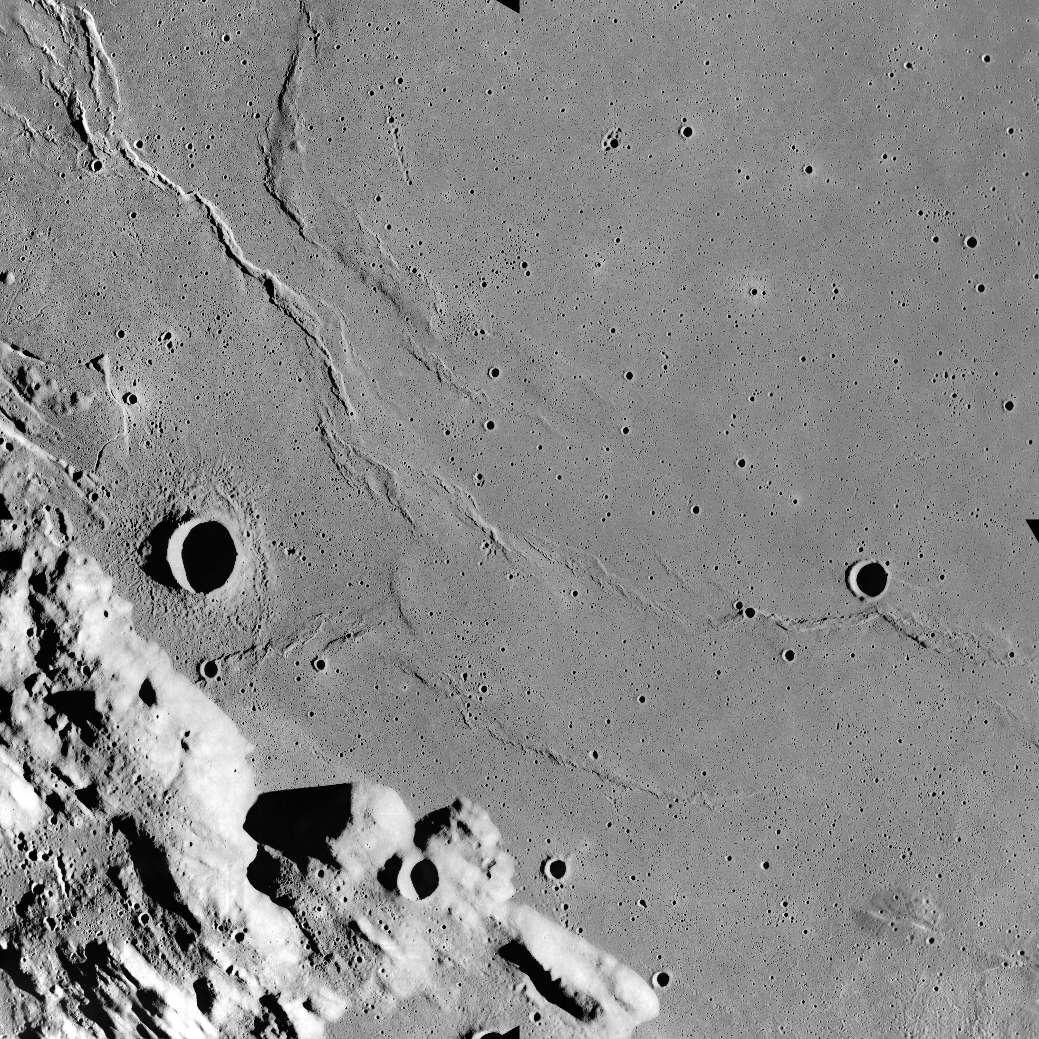 Moon crater Sulpicius Gallus and Dorsa Sorby. Detail from Apollo 17 metric image AS17-M-0806, remapped to a north-up aerial view by LTVT.